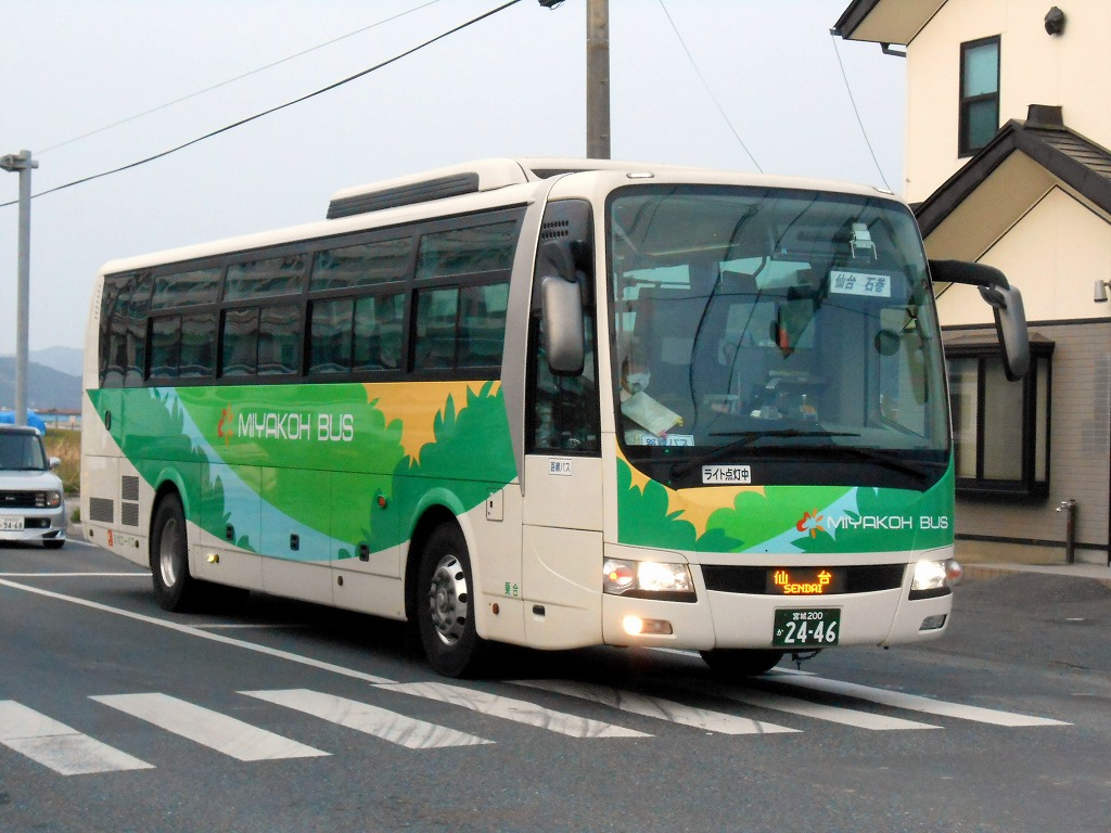 Miyakoh bus highwaybus "Sendai-Ishinomaki"